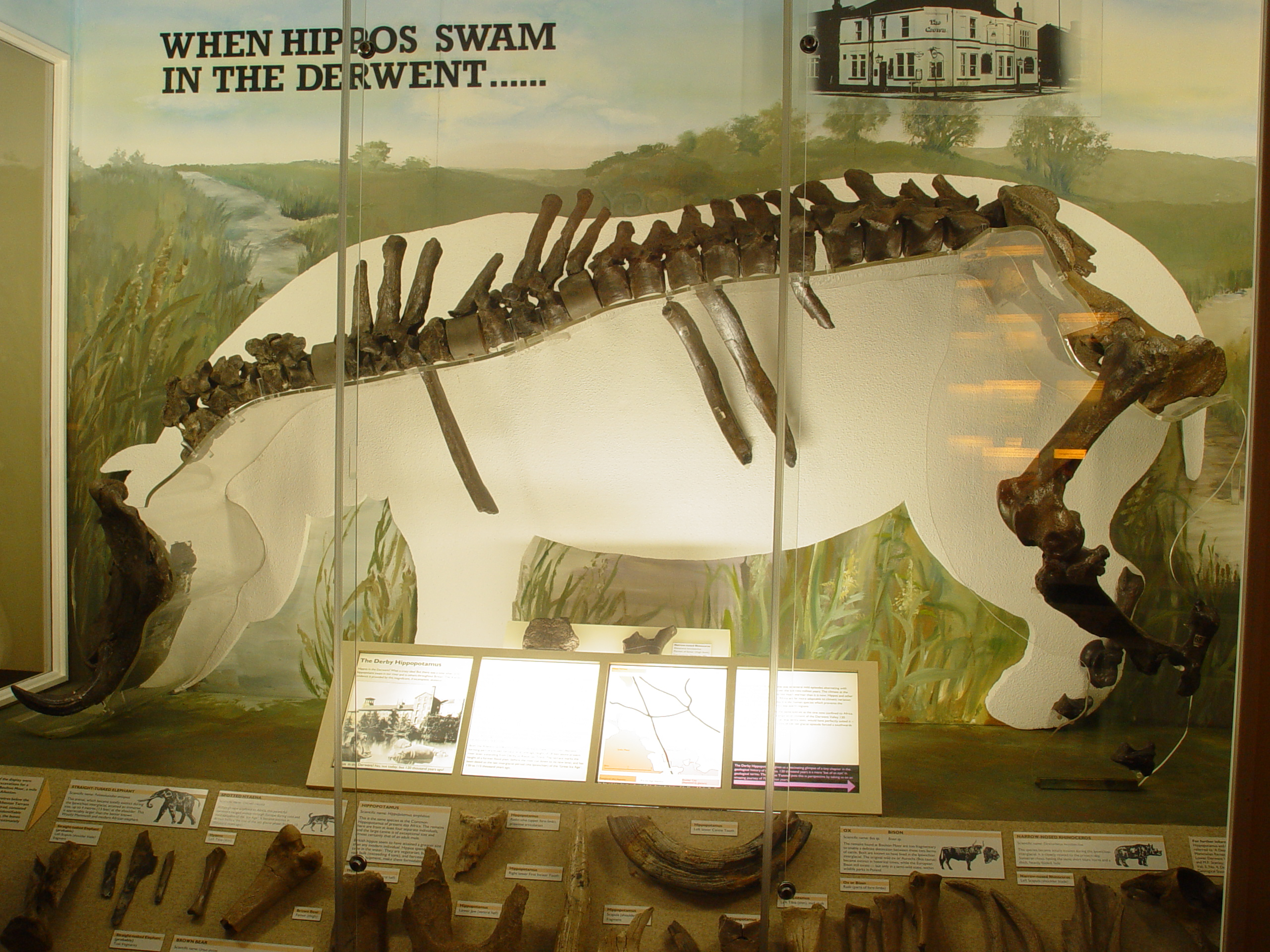 Display of Hippopotamus skeleton at Derby Museum and Art Gallery, known locally as the "Allenton Hippo".